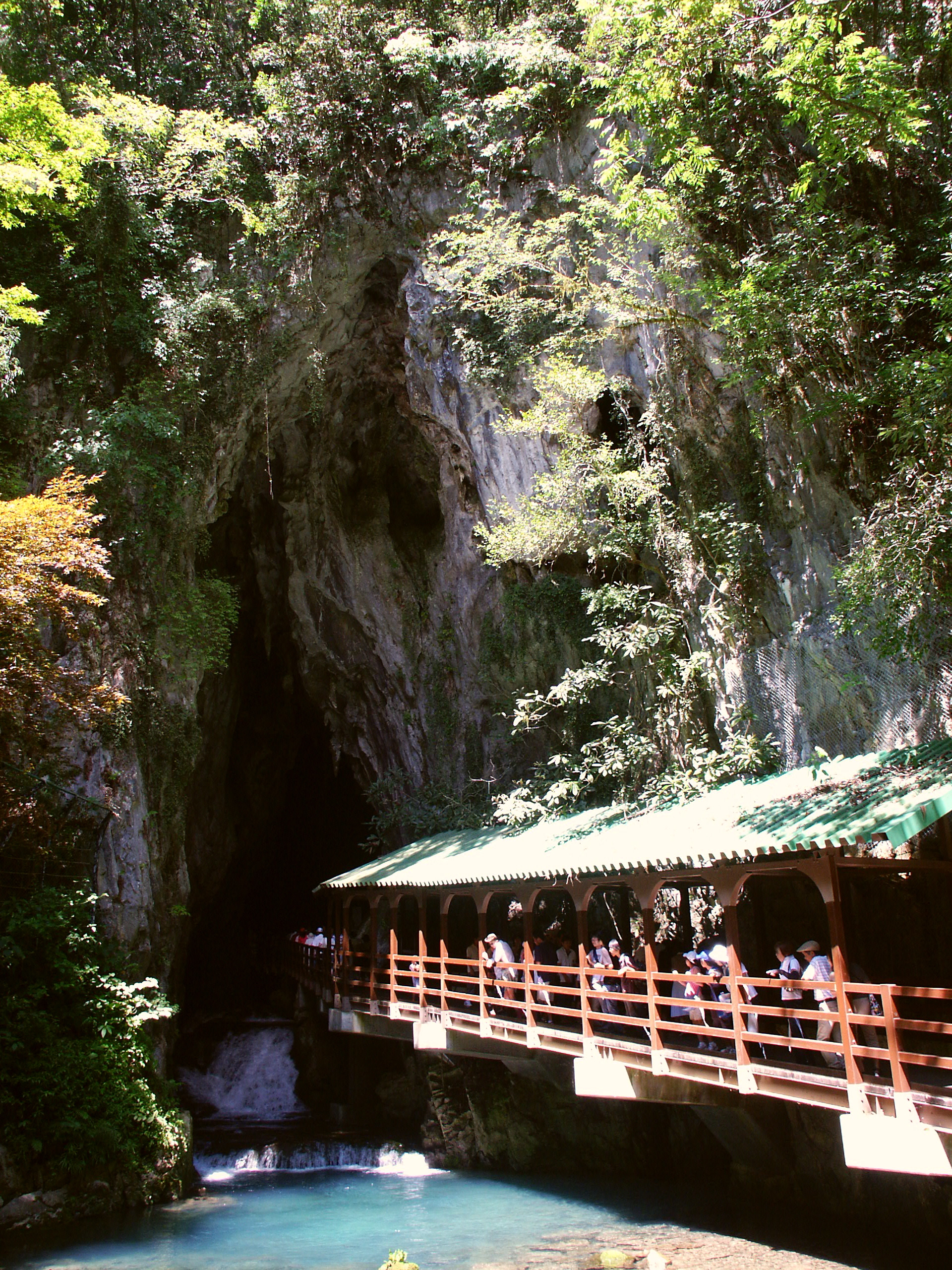 Entrance to the Akyoshi-do cavern, Yamaguchi Prefecture, Japan